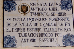 Plaque commemorating restoration of building started in 1962